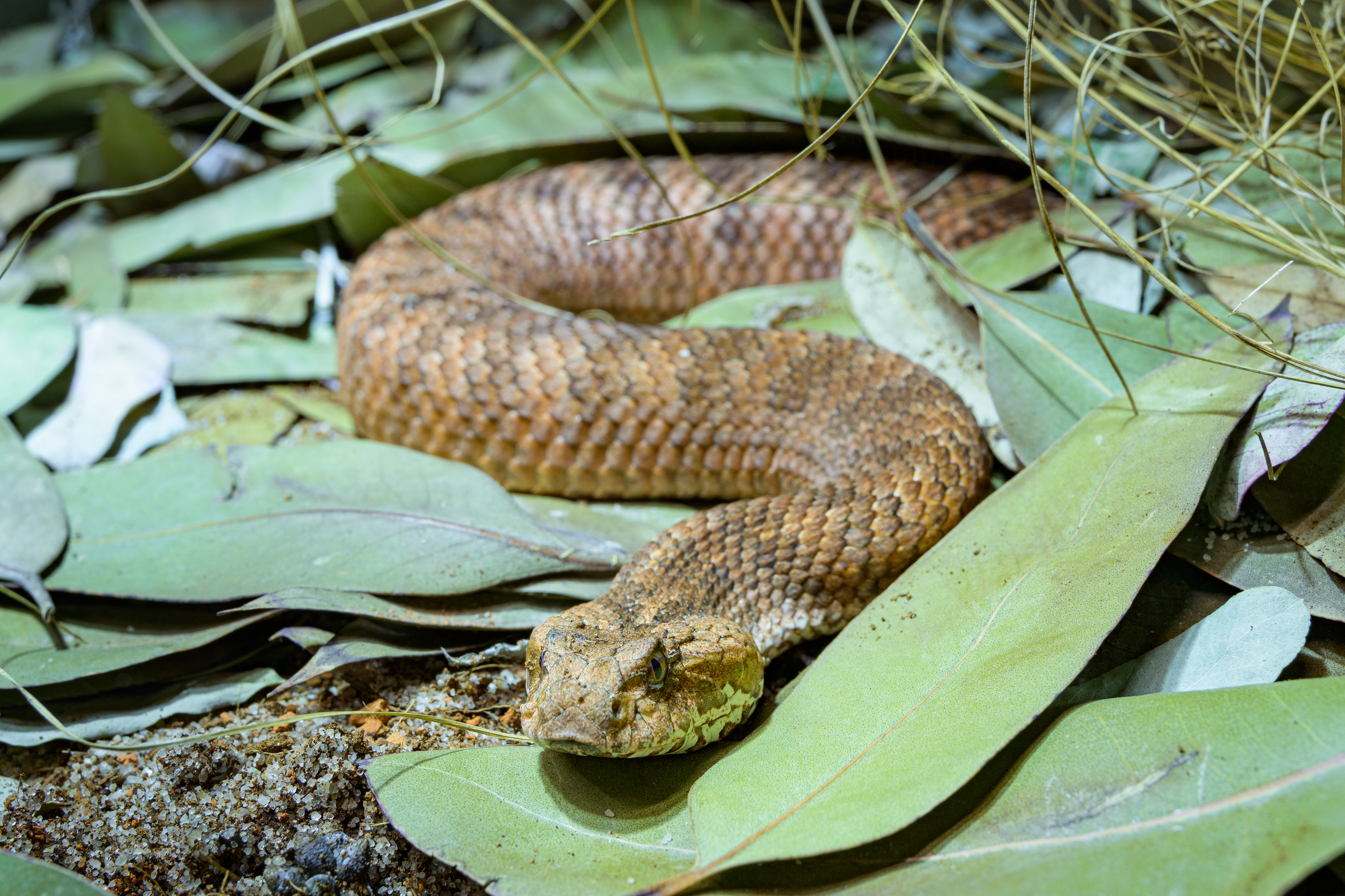 the common death adder, Prague Zoo